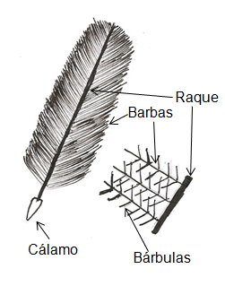 Partes das Penas